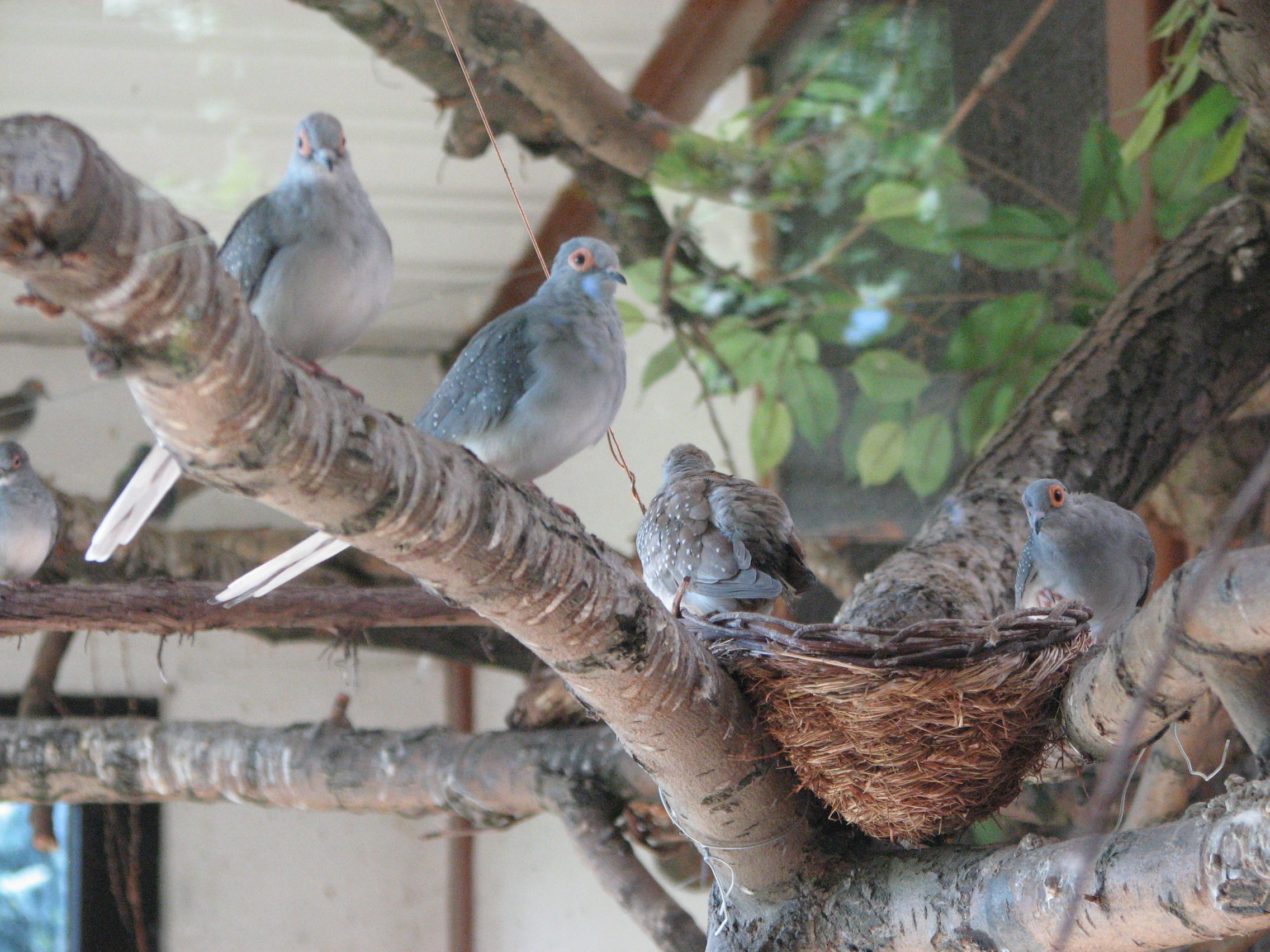 Silesian Zoological Garden, Chorzów, Poland